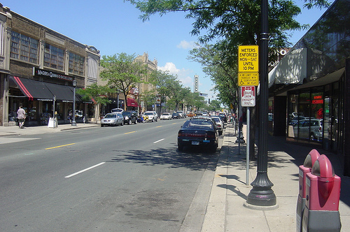 A "Meters Enforced" sign on northbound Hennepin Avenue just north of West 31st Street in Uptown, Minneapolis. Taken in July 2007.